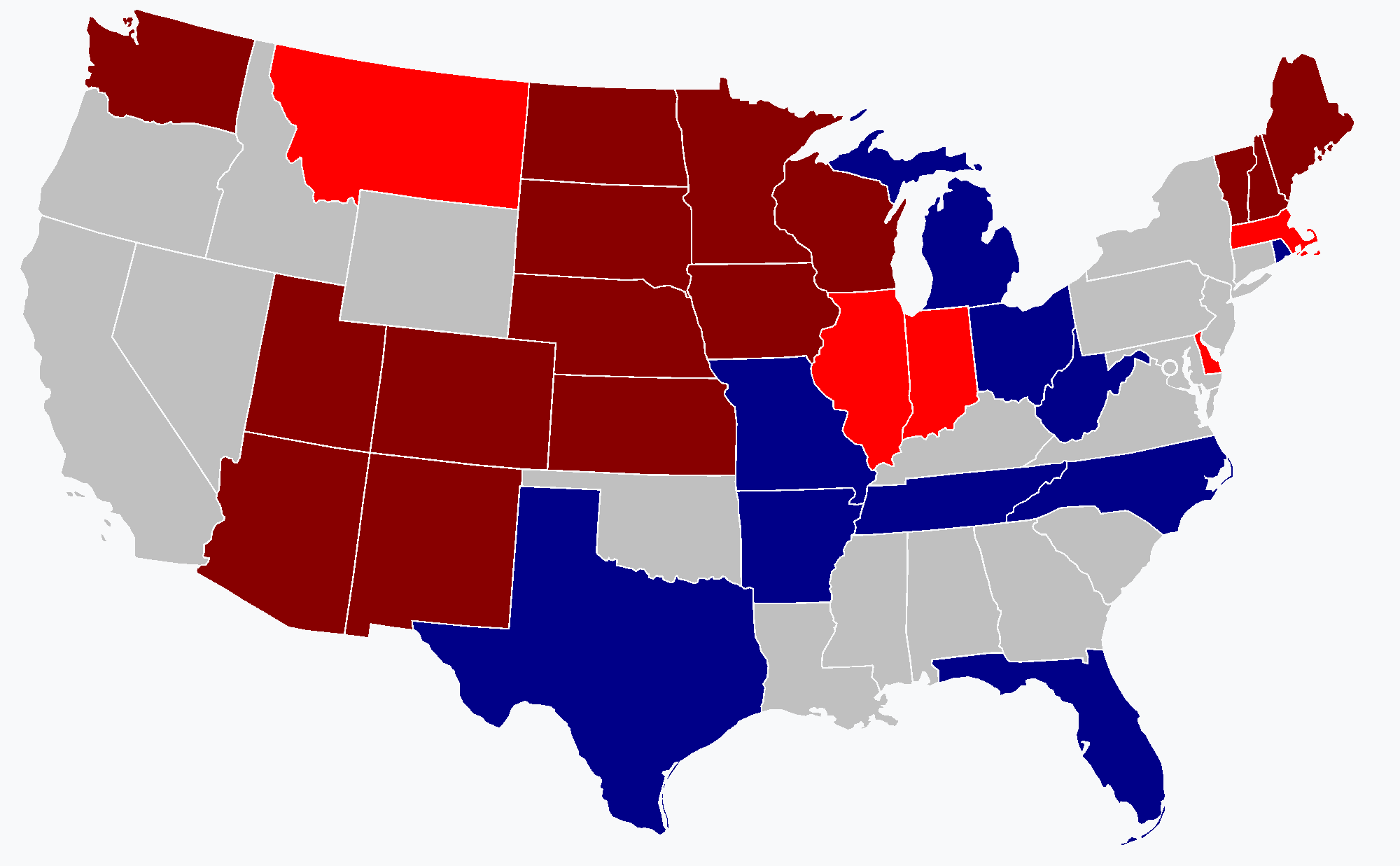 A map showing the results of the 1952 United States Gubernatorial elections